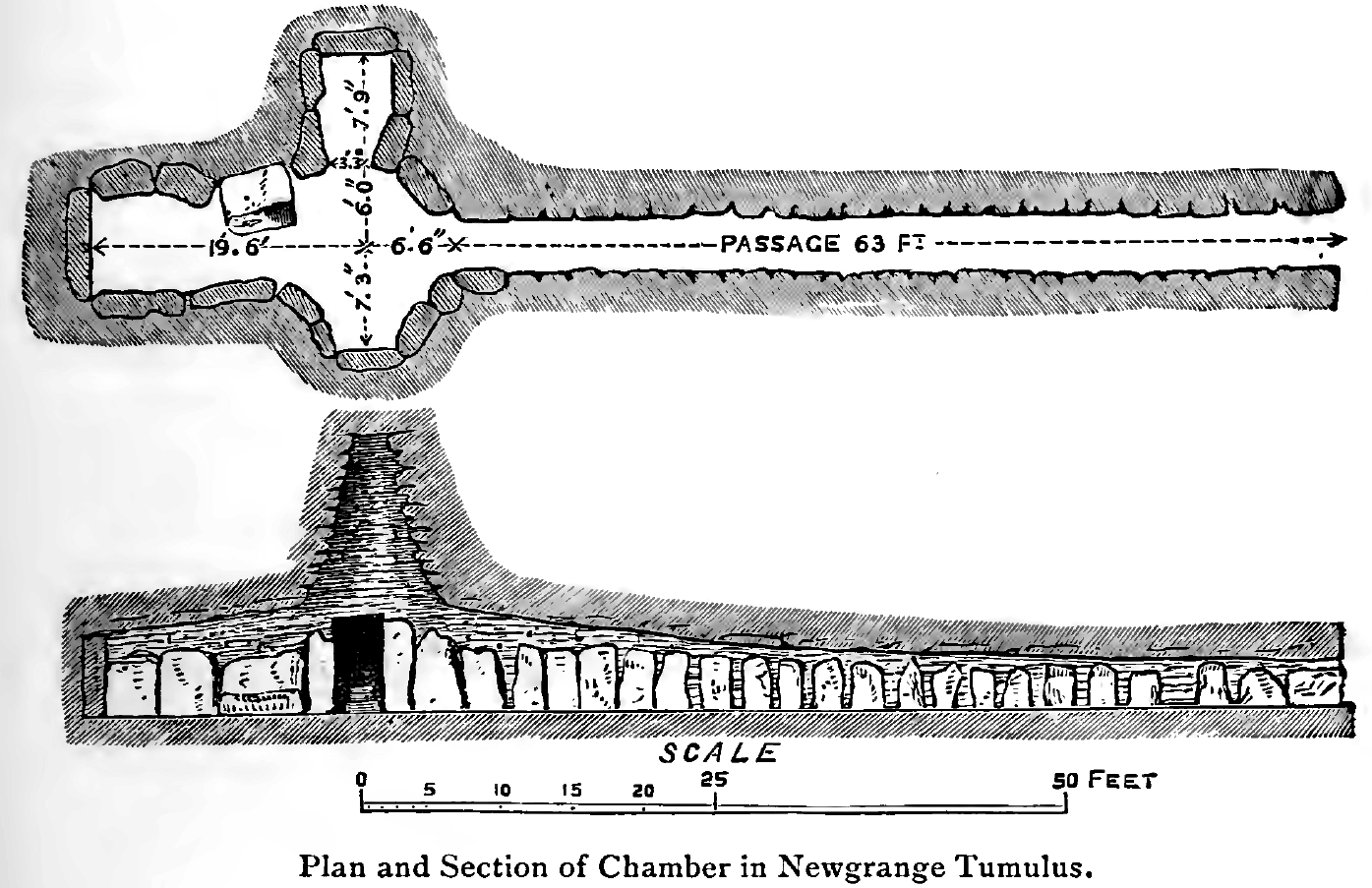 Sketch of a cross section of the Newgrange passage grave made by William Frederick Wakeman (d. 1900). Screen capture of PDF version of the 1903 edition converted into black and white and adjusted for contrast and brightness.